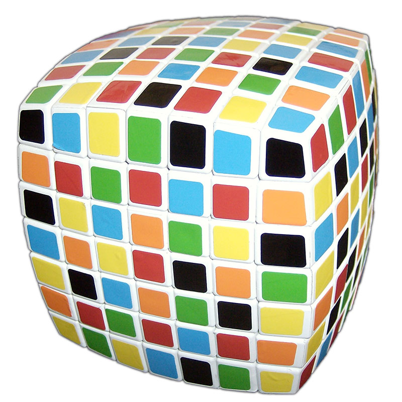 The V-Cube 7 in a scrambled state.